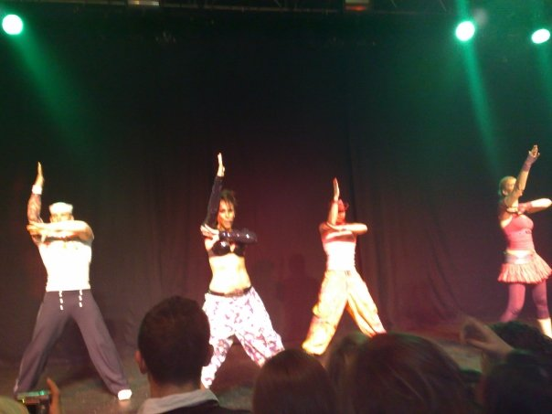 the vengaboys performing IBIZA at 53 degrees preston